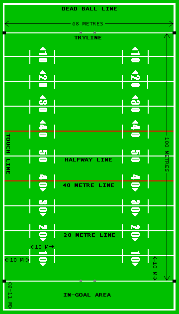 Created by Albinomonkey, December 31, 2004 using Paint Shop Pro Version 5.01.